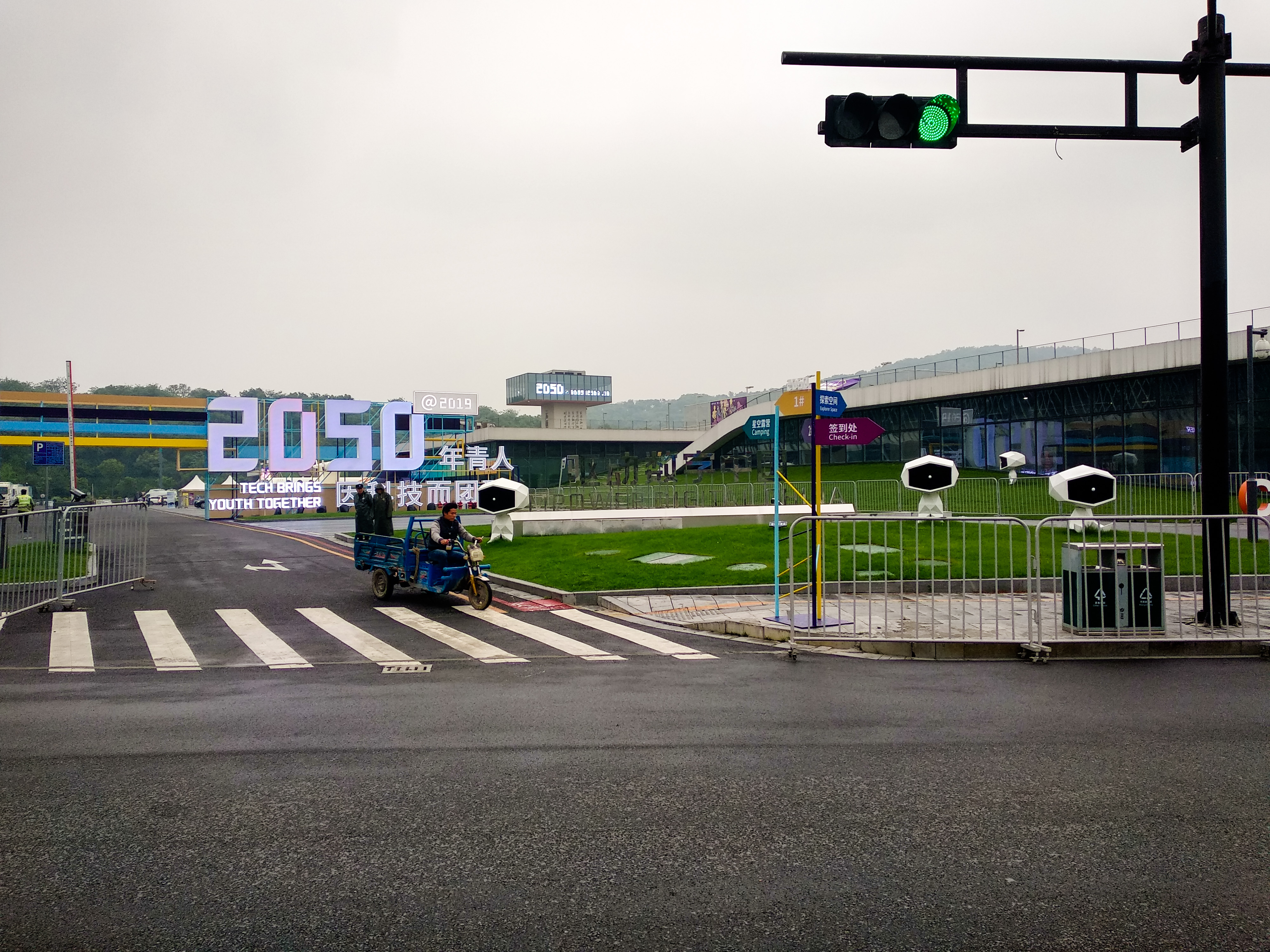 2050@2019 Unconference Hangzhou April-2019